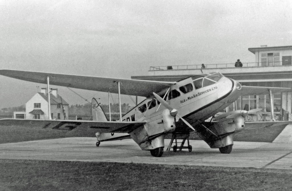 De Havilland Dragon Rapide G-AEBW of Isle of Man Air Services at Manchester (Ringway) Airport in September 1938.